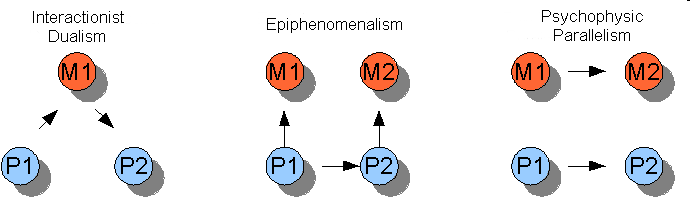 3 forms of philosophical dualism.